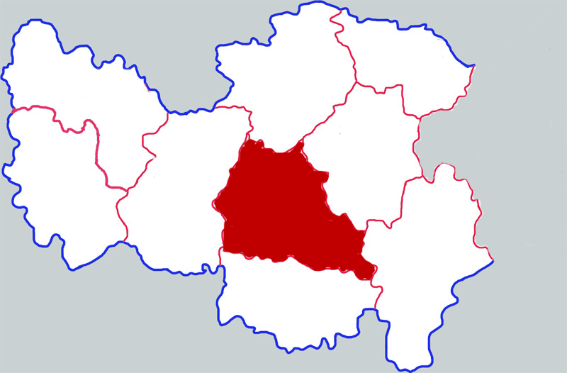 Location of Guangshan county in Xinyang city, China